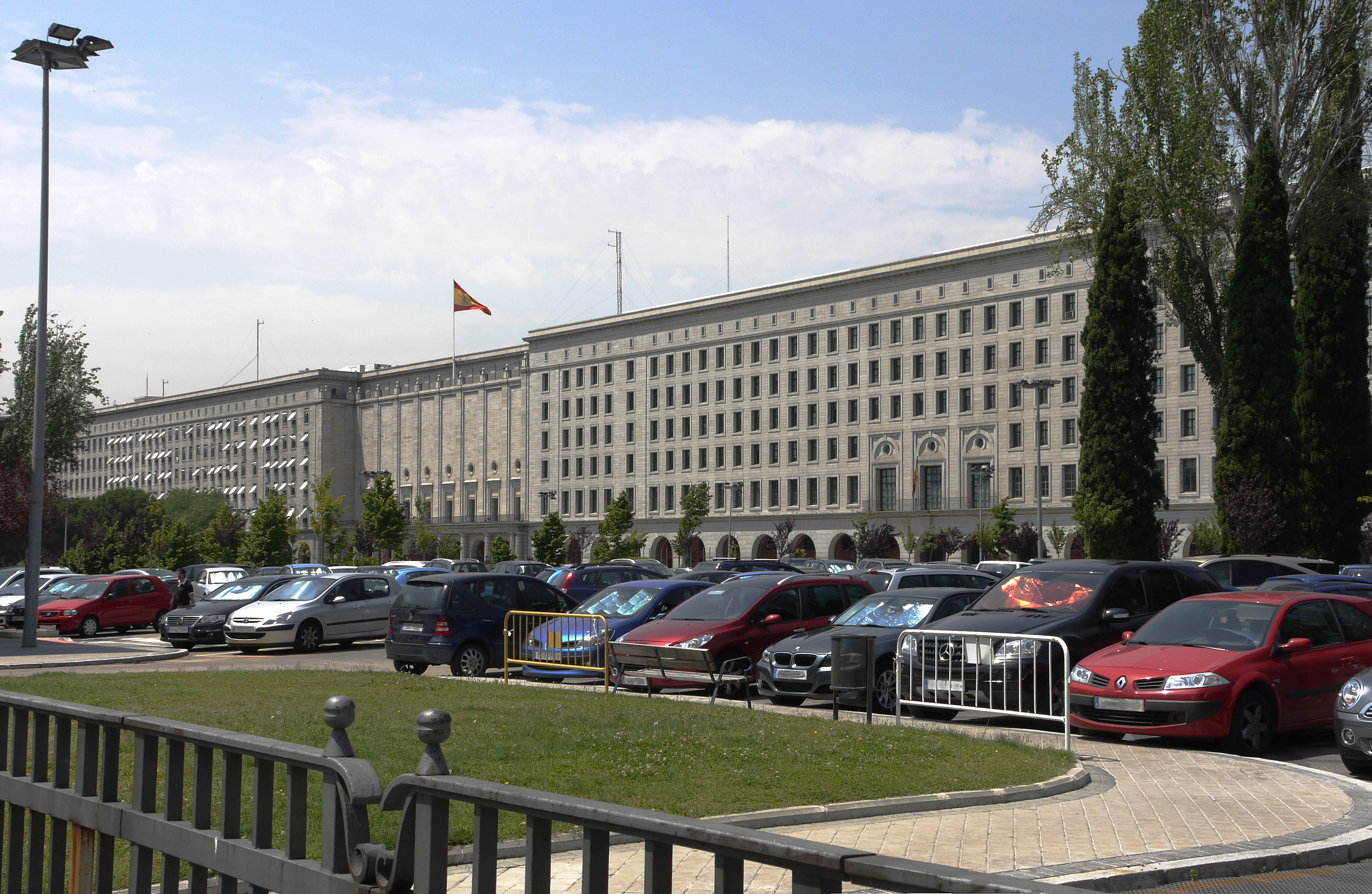 Nuevos Ministerios, Madrid, Spain.